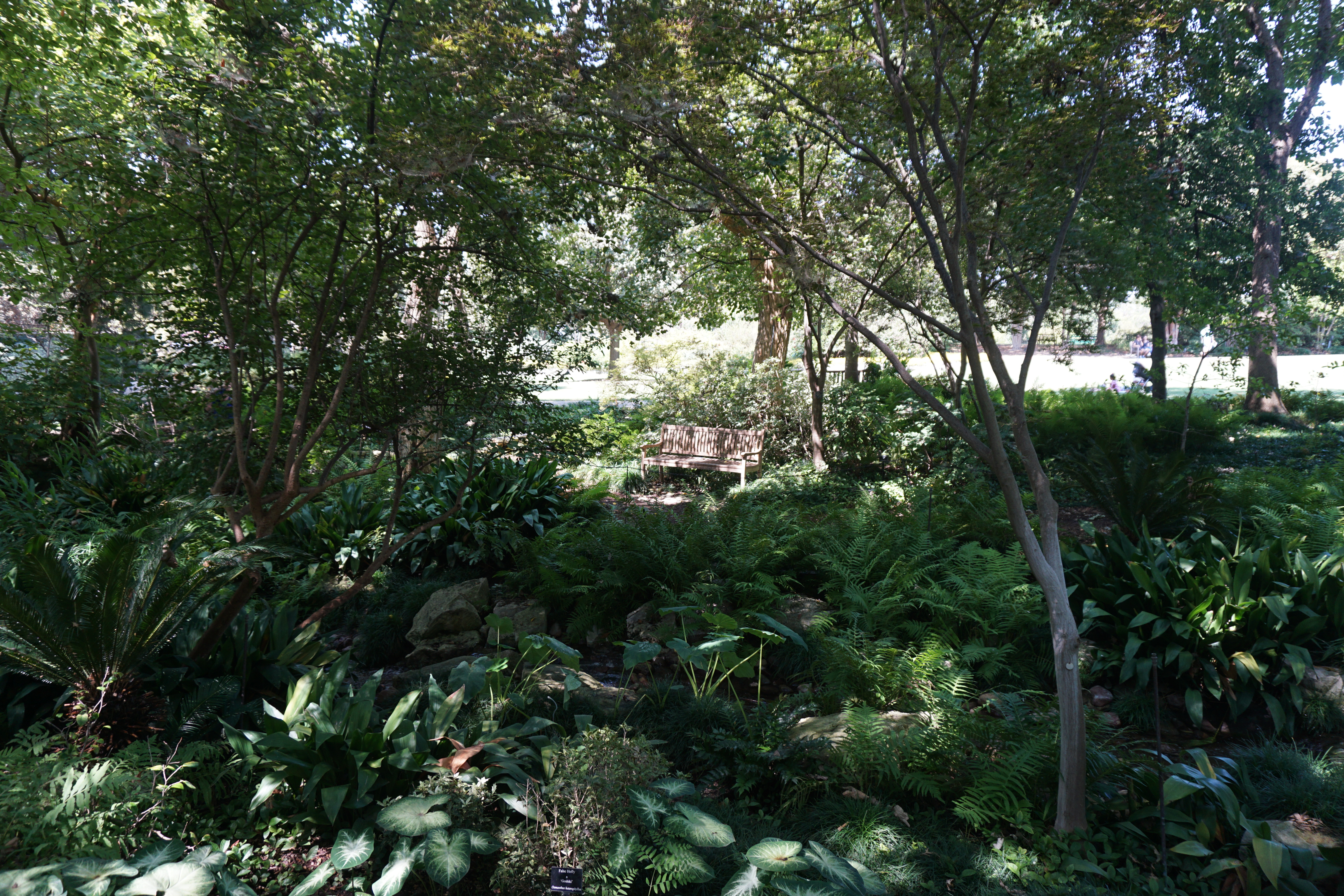 The Palmer Fern Dell at the Dallas Arboretum and Botanical Garden in Dallas, Texas (United States).